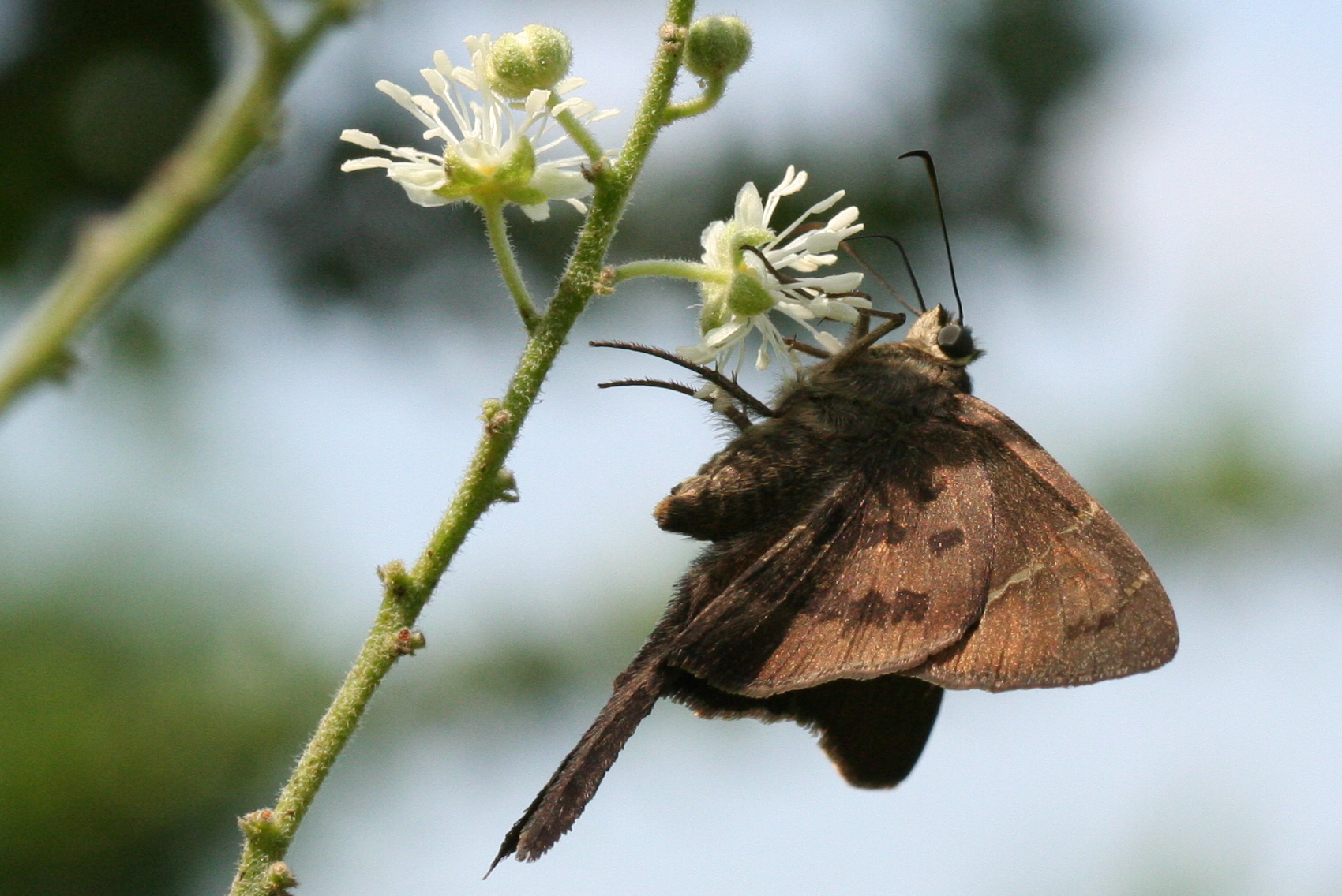 Brown longtail (Urbanus procne)